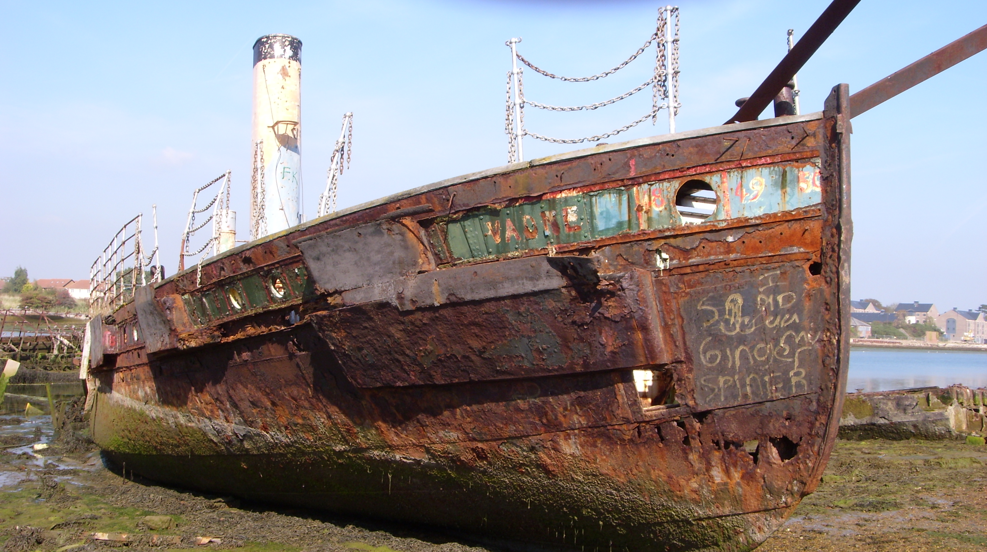 A photograph of the former Gosport ferry 'Vadne', taken 27 September 2008 by Daniel Karmy.